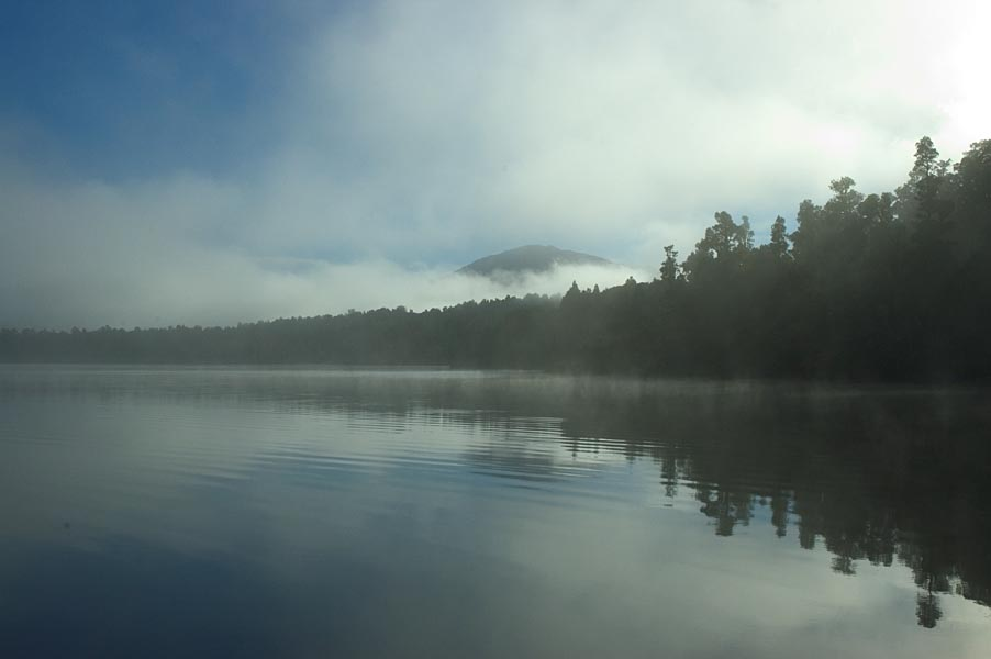 Lake Paringa, West Coast, New Zealand. Photograph by James Shook, who retains copyright and releases the image under the license shown below.